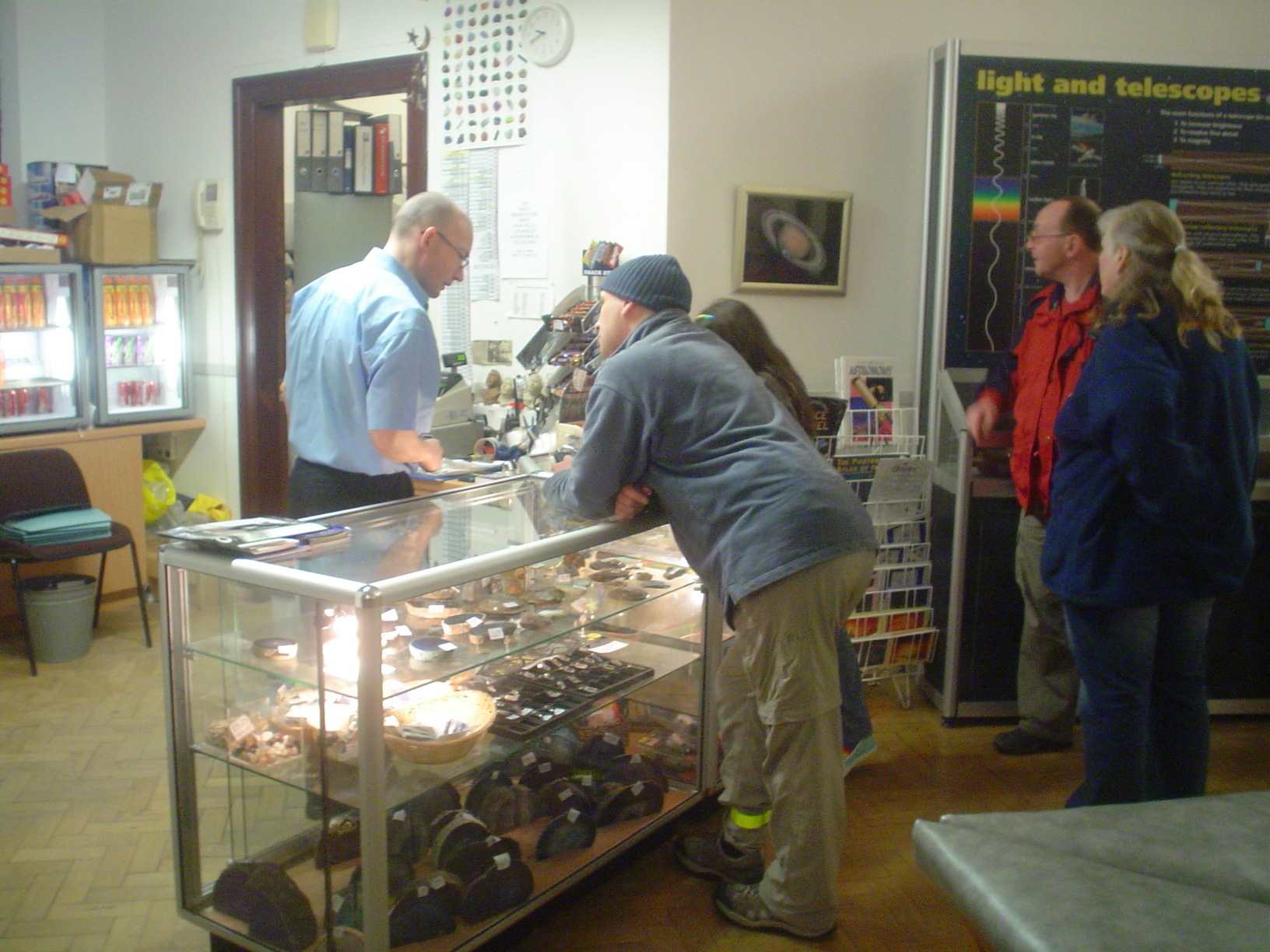 Taken with Cybershot DSC-P32 Cyril Thomas 23:00, 13 March 2007 (UTC)